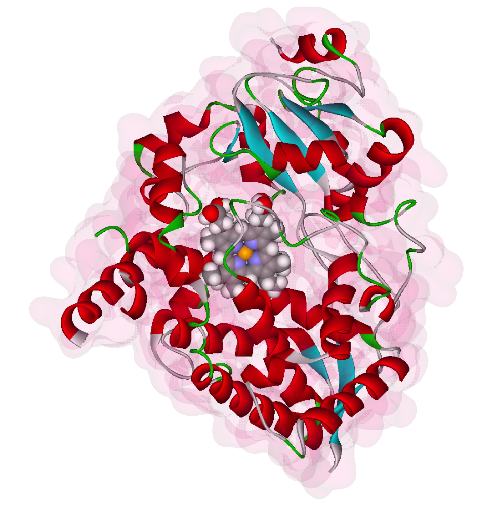 Ribbon diagram of human cytochrome P450 isozyme 3A4. Heme group visible at center.Created using Accelrys DS Visualizer Pro 1.6 and the GIMP.